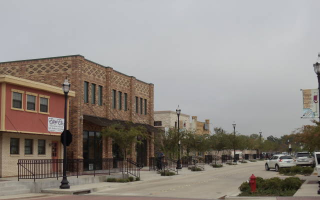 Roanoke Center